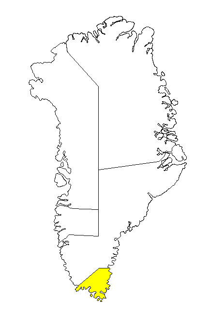 Map showing location of the Kujalleq municipality in Greenland